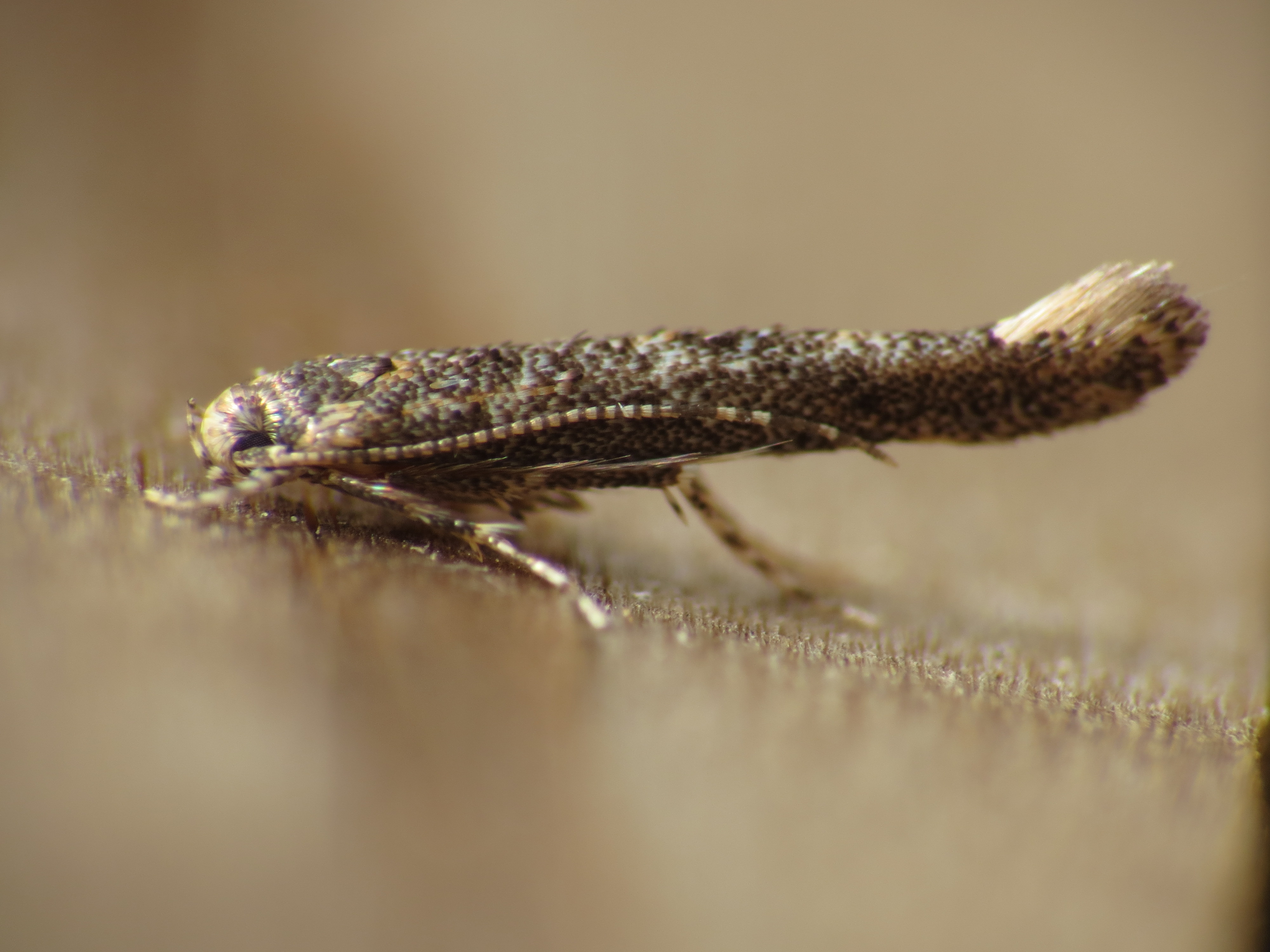 Coccidiphila gerasimovi Danilevsky, 1950, to actinic light, Roda de Barà, Spain, 7/8 May 2013 Koster & Sinev, 2003 mentions that the "dark grey pattern of the forewings [is] sometimes intensified and spread over the wing surface, with only some traces of the ochreous colouration visible." A more typical individual is shown here. Note the pattern of antennal rings.